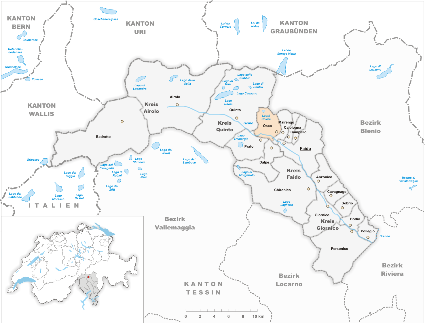 Municipality Osco